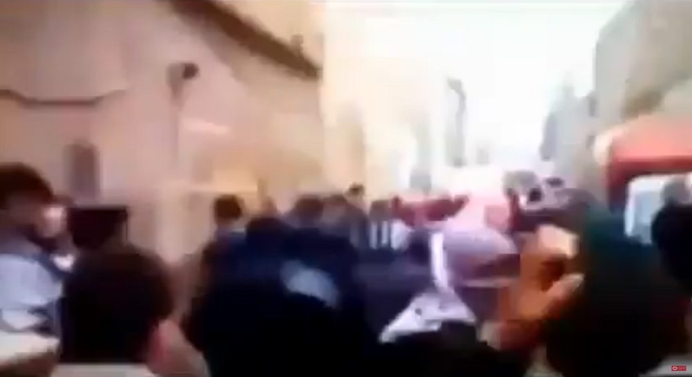 Anti-government protesters march through the streets of al-Yaarubiyah in January 2012.